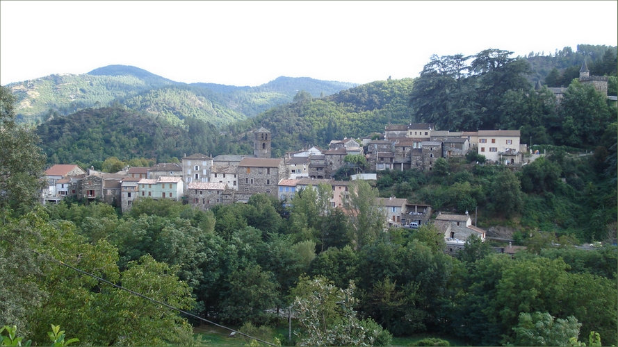 The village seen from the other side of the river